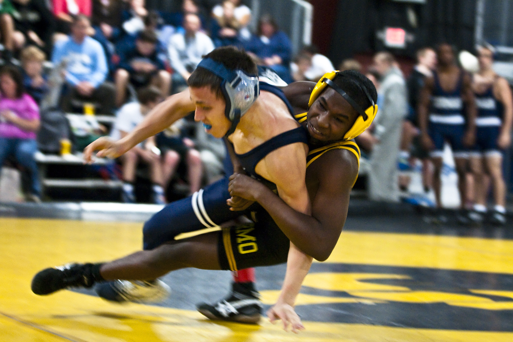 High school wrestling teams from South Carolina, Virginia, Tennessee and Pennsylvania compete at the 2012 U.S. Military Duals Tournament held in Columbia, S.C., Jan. 14, 2012. The tournament is sponsored by the South Carolina National Guard and the U.S. Navy.